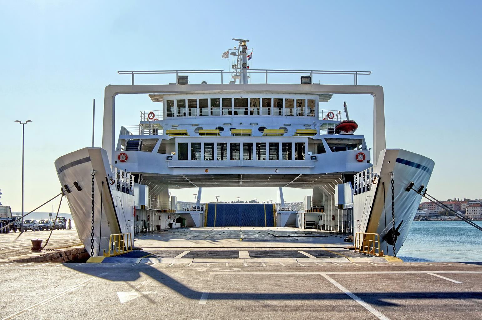 Bol (ship, 2006) IMO 8736344; in Split, 2011-10-14; at St. Peter's Quay